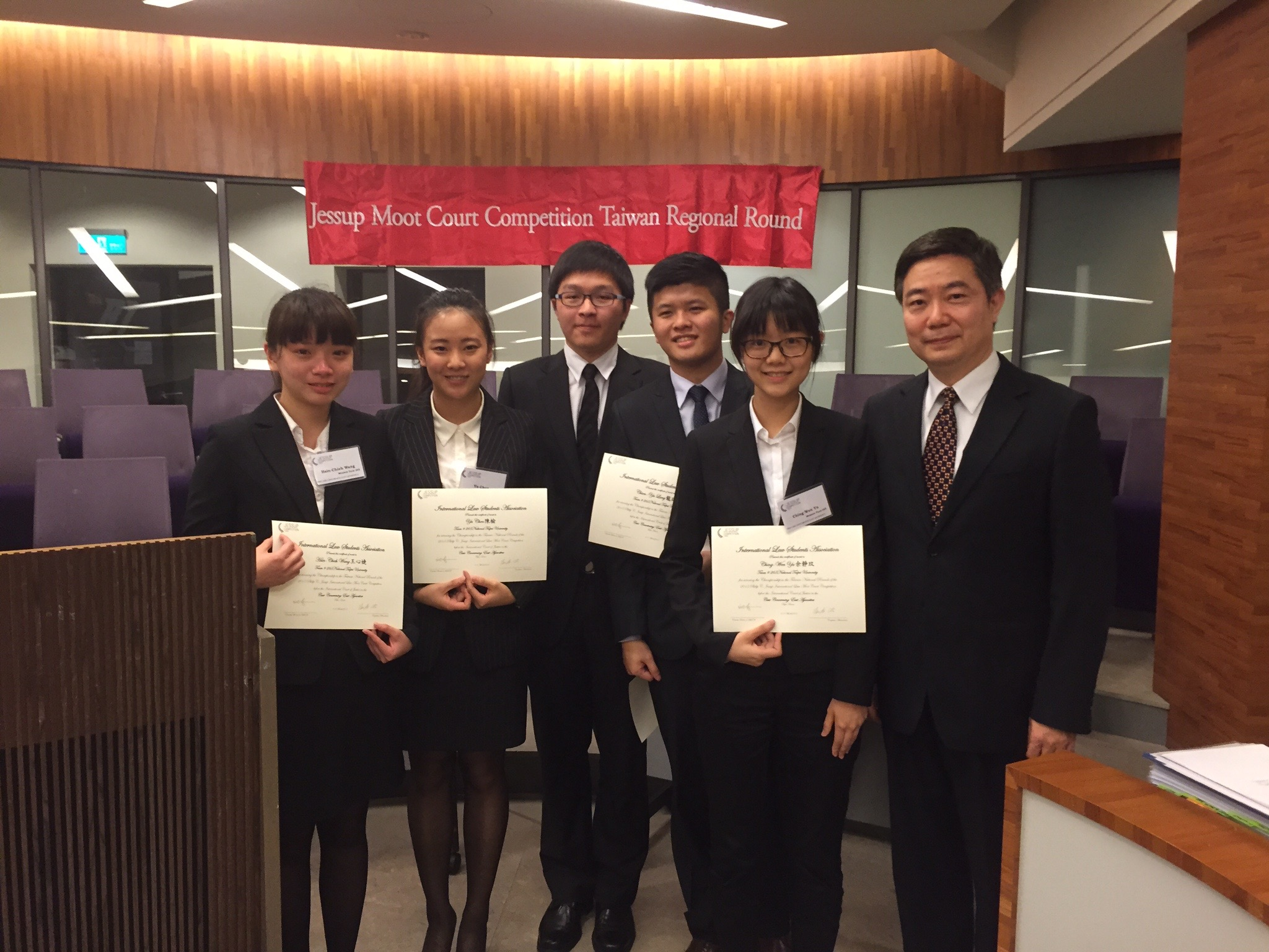 The Jessup Moot Court Team of School of Law, Soochow University.